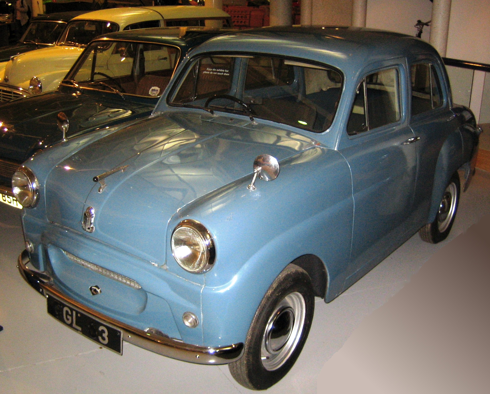 Standard Eight - early Ponton format - held at Heritage Motor Centre